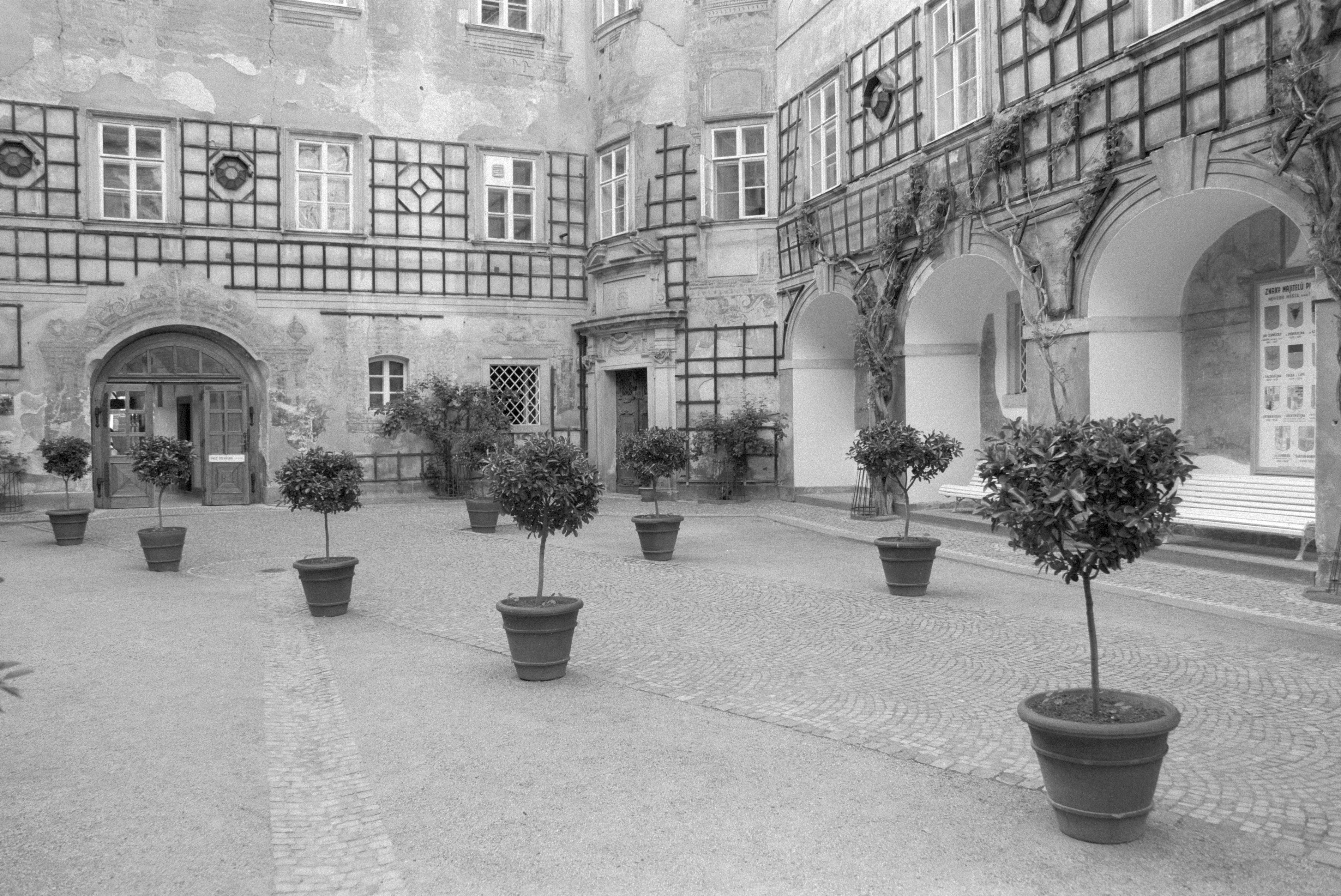 Castle Nové Město nad Metují in Czech Republic, the courtyard picture taken by me in spring 2006 (original black+white)